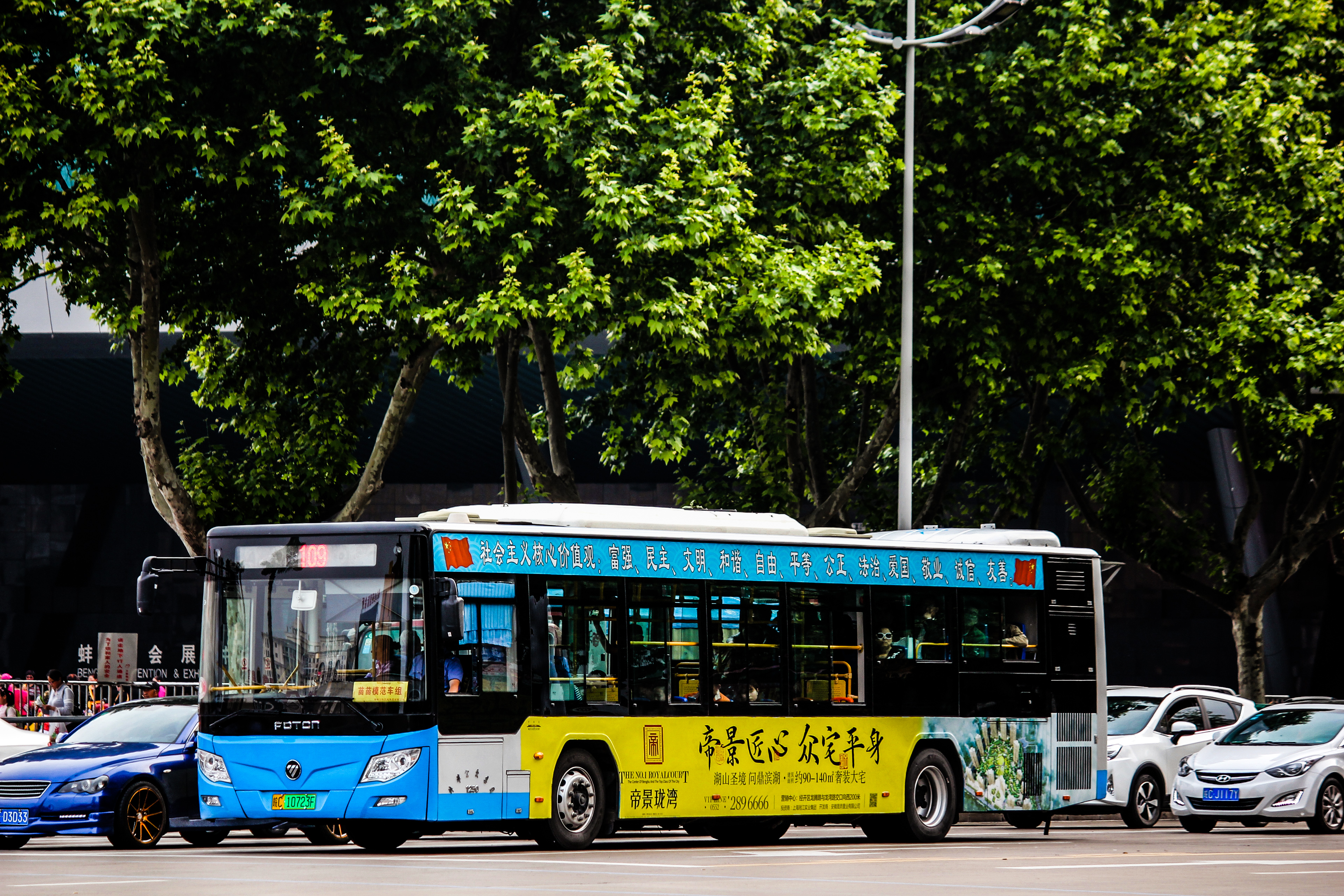 Bengbu Bus No.109 with New Energy Vehicle License Plate